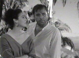 Screenshot of Ava Gardner and Richard Burton from the trailer for the film The Night of the Iguana (1964).